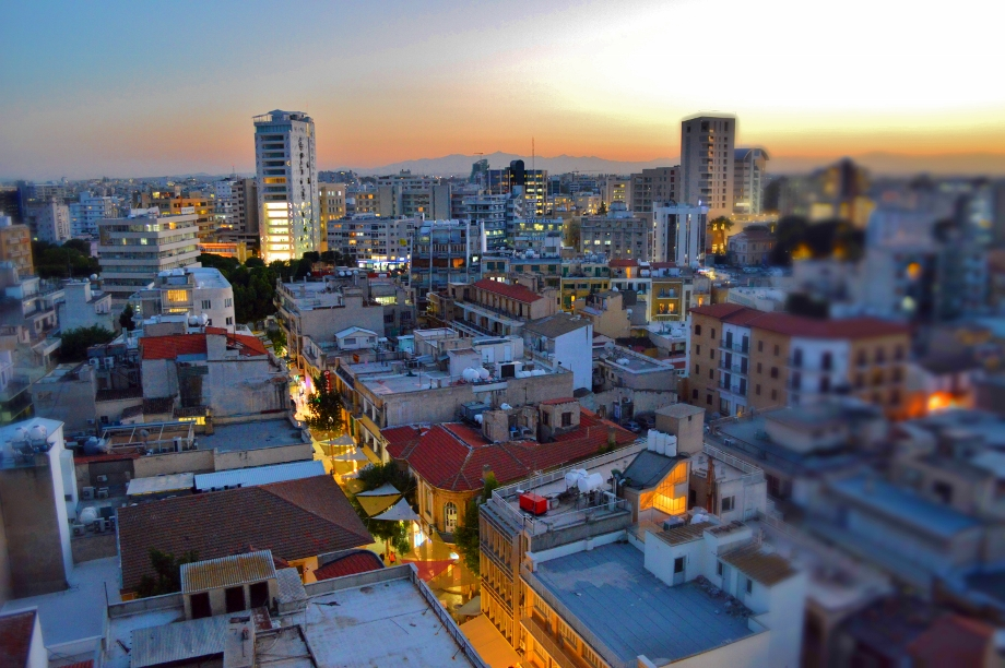 Nicosia just after sunset Nicosia Republic of Cyprus Kypros